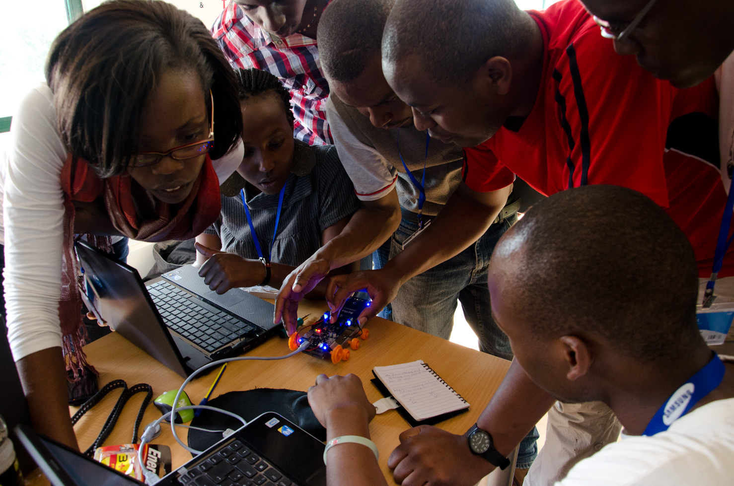 Advancement of technology and reseach in Africa This is an image of "African people at work" from Kenya